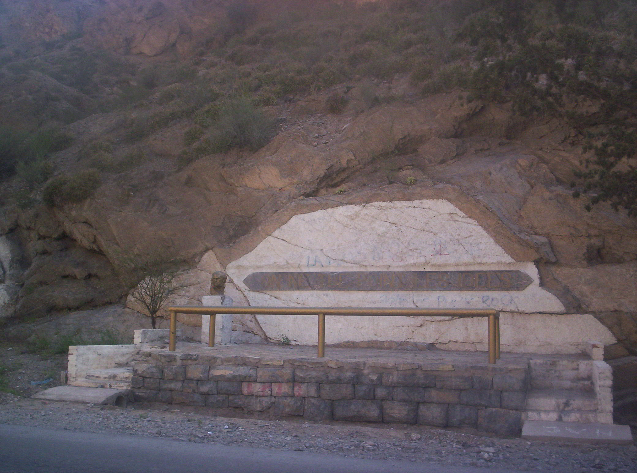 Photograph showing a monument to Domingo Faustino Sarmiento, with graffiti that said ON NE TUE POINT LES IDÉES, meaning "You can't kill ideas", which was written by him when passing through the Sierra Chica de Zonda, to achieve his exile to Chile, is located in the gorge of Zonda in Rivadavia Department Province of San Juan Argentina